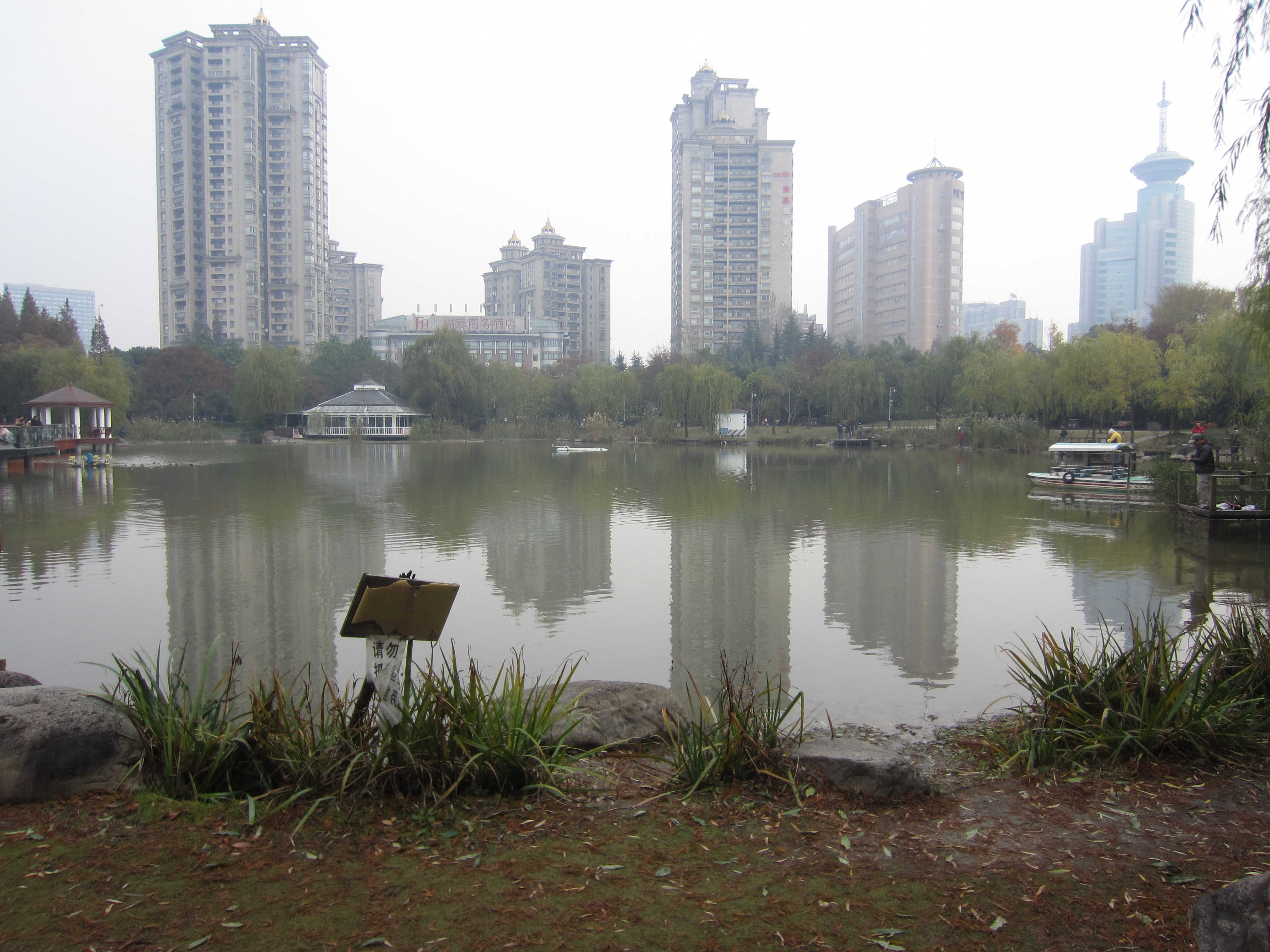 New Town Central Park, Shanghai (December 2015)